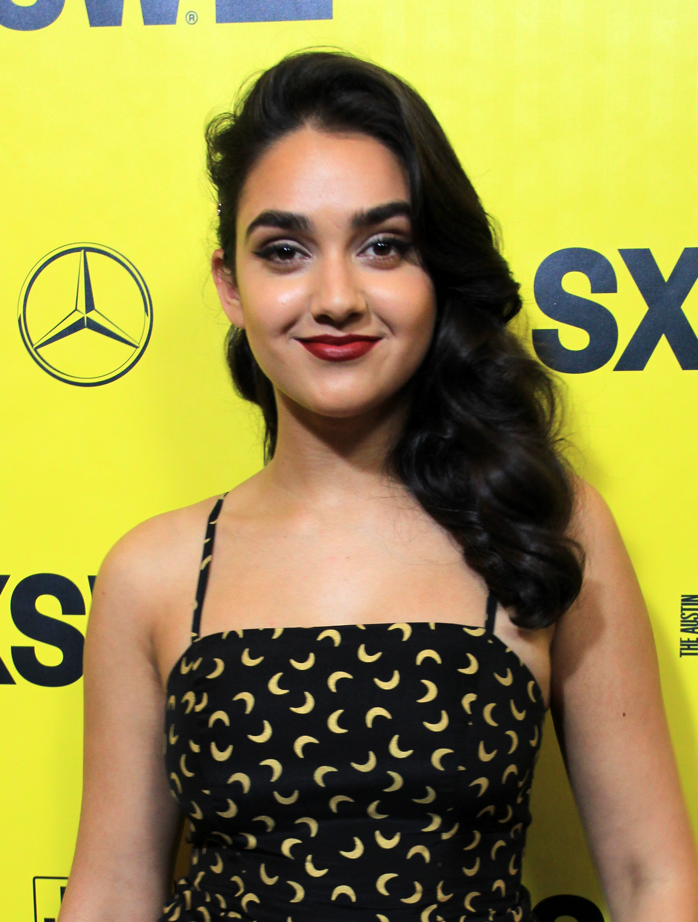 Geraldine Viswanathan at SXSW Red Carpet premiere of BLOCKERS